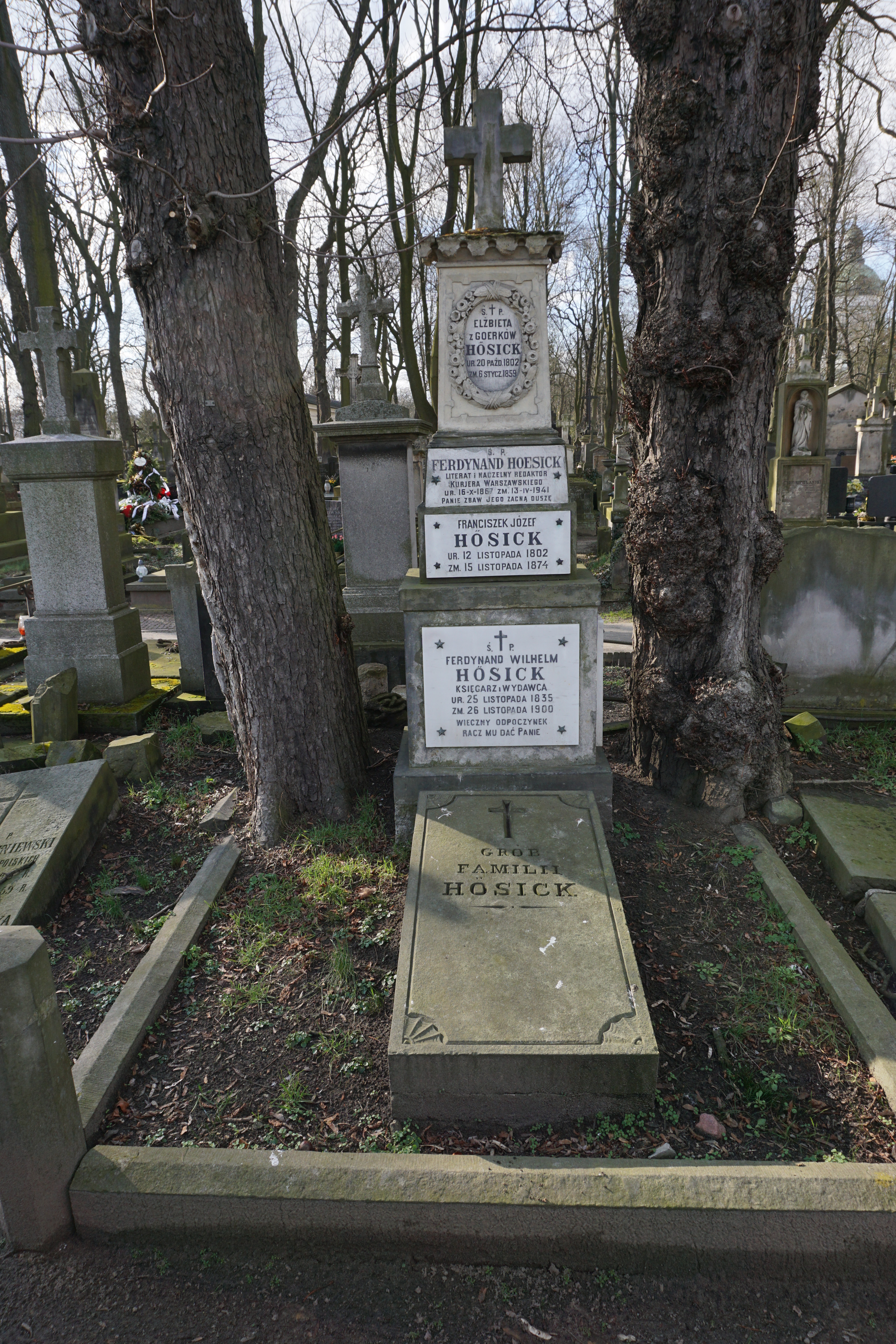 The grave of Ferdynand Hoesick at the Powązki Cemetery (section 156, row 5, grave 21, 22)